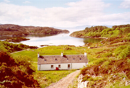 Rona Lodge, Isle of South Rona. Built in 1866 as a hunting lodge for the Raasay estate, the lodge is now home to Bill Cowie, Island Manager for the current owner of South Rona.